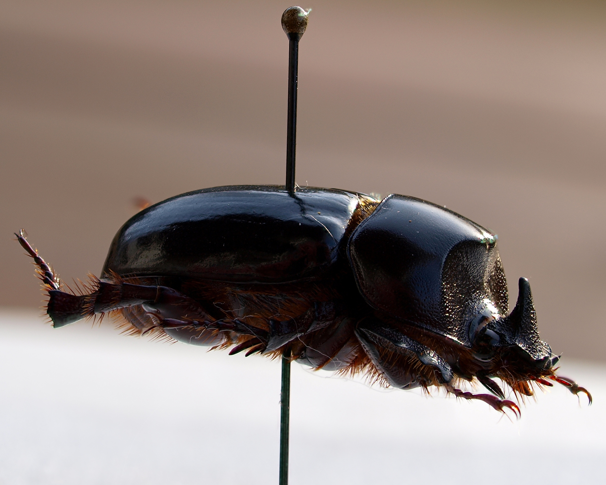 Xyloryctes jamaicensis, male